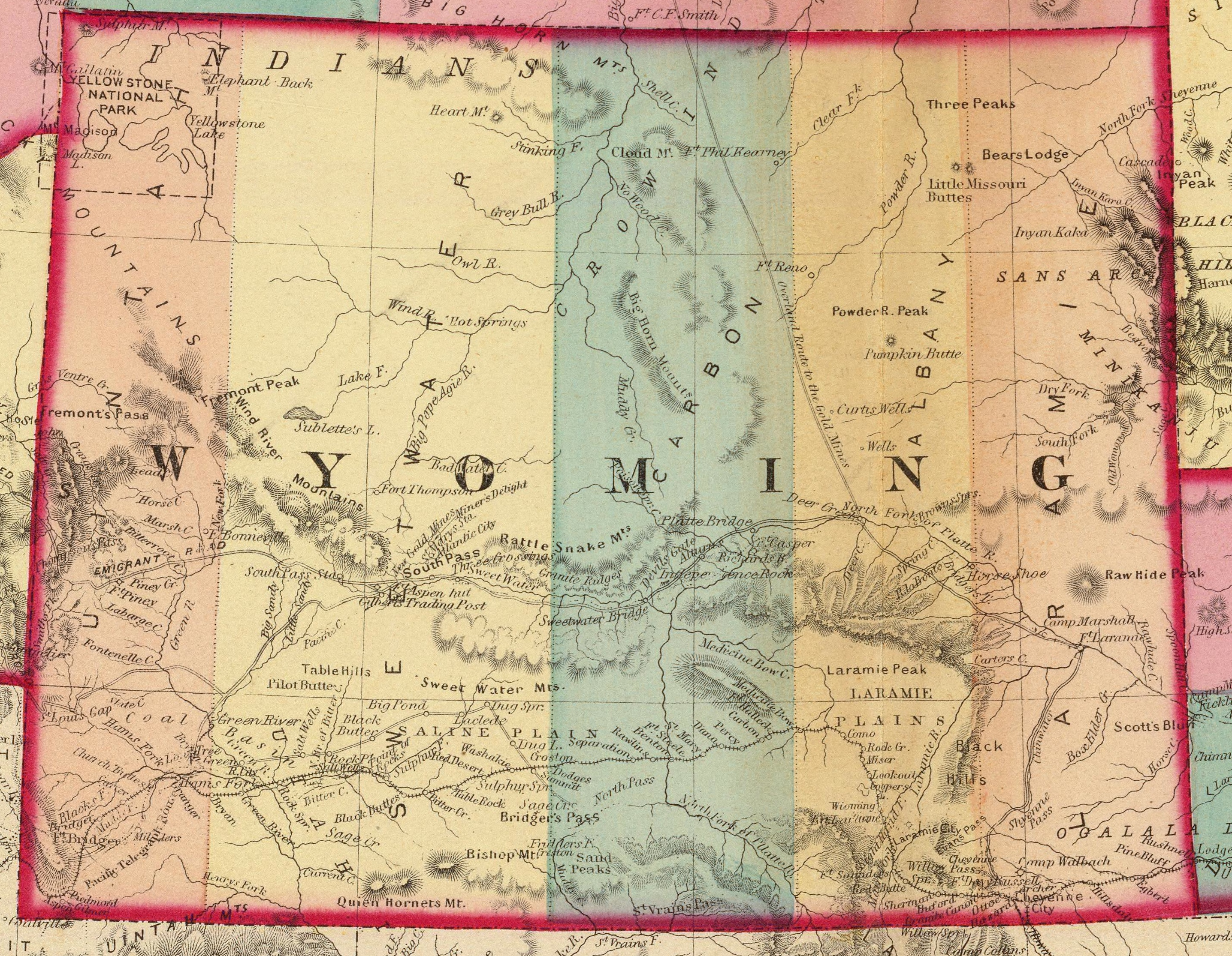 Cropped from Atlas of the United States. Nebraska, and the territories of Dakota, Idaho, Montana and Wyoming. Published by Stedman, Brown & Lyon, Cincinnati. 1872. By H.F. Walling, O.W. Gray, and H.H. Lloyd & Co. The David Rumsey Map Collection claims Copyright 2005 plus CC BY-NC-SA 3.0. But this map was published prior to the public domain threshold year of 1923. Rumsey made no changes. See COM:DW.